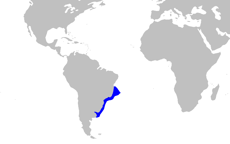 Distribution map for Squatina punctata